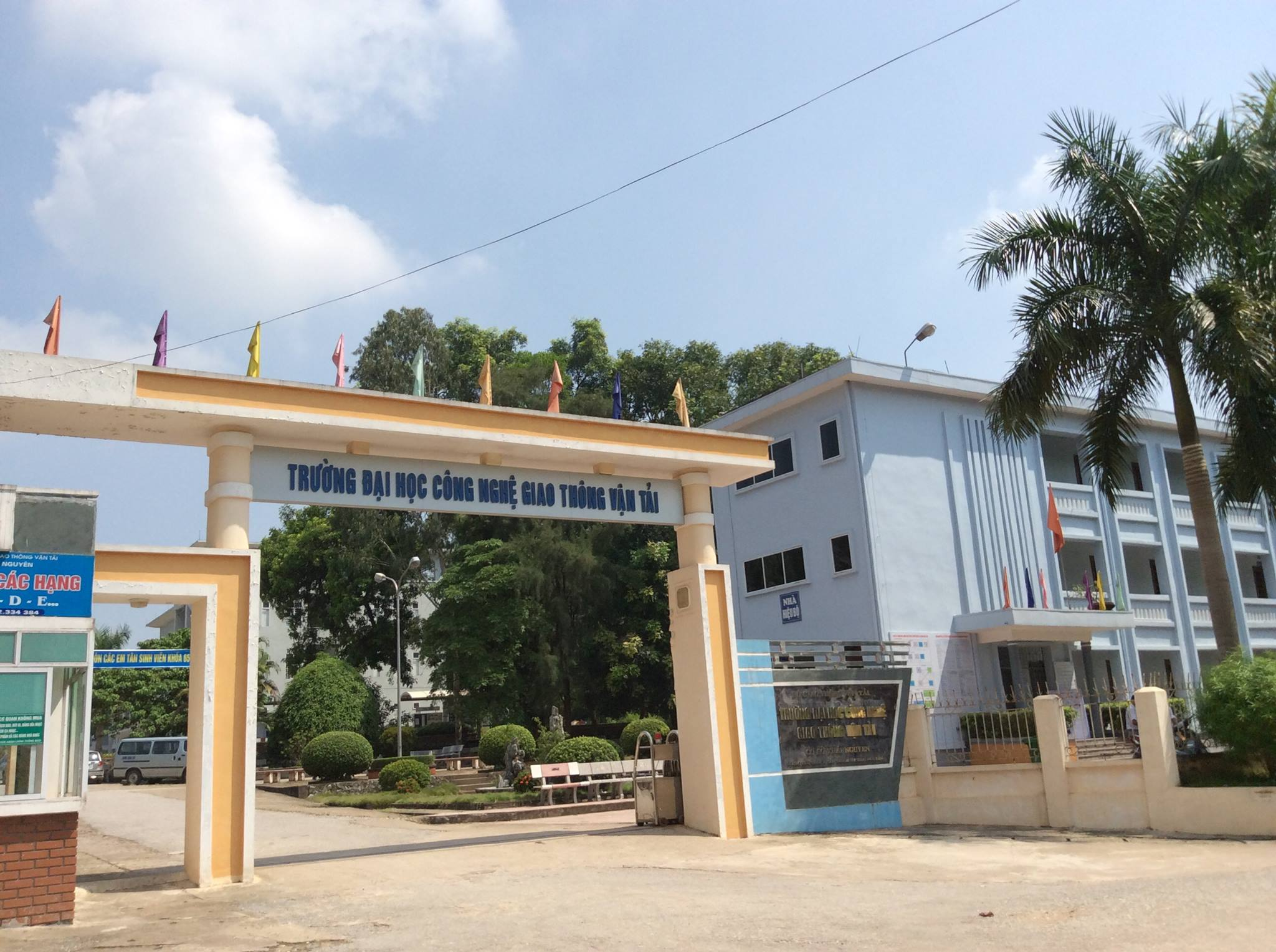 Cơ sở đào tạo Thái Nguyên